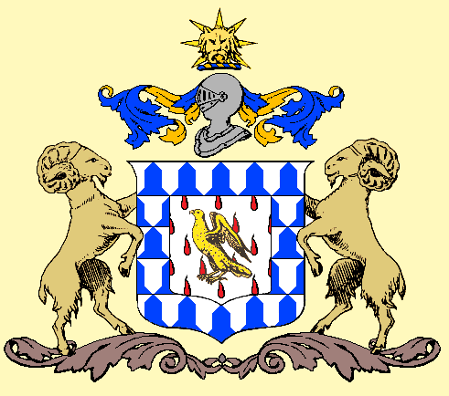 Chamba State Coat of Arms This work is in the public domain in India because its term of copyright has expired. The Indian Copyright Act applies in India, to works first published in India. According to The Indian Copyright Act, 1957 (Chapter V Section 25), Anonymous works, photographs, cinematographic works, sound recordings, government works, and works of corporate authorship or of international organizations enter the public domain 60 years after the date on which they were first published, counted from the beginning of the following calendar year (ie. as of 2019, works published prior to 1 January 1959 are considered public domain). Posthumous works (other than those above) enter the public domain after 60 years from publication date. Any other kind of work enters the public domain 60 years after the author's death. Text of laws, judicial opinions, and other government reports are free from copyright. Photographs created before 1959 are in the public domain 50 years after creation, as per the Copyright Act 1911. This file may not be in the public domain outside India. The creator and year of publication are essential information and must be provided. See Wikipedia:Public domain and Wikipedia:Copyrights for more details. This image shows a flag, a coat of arms, a seal or some other official insignia. The use of such symbols is restricted in many countries. These restrictions are independent of the copyright status.